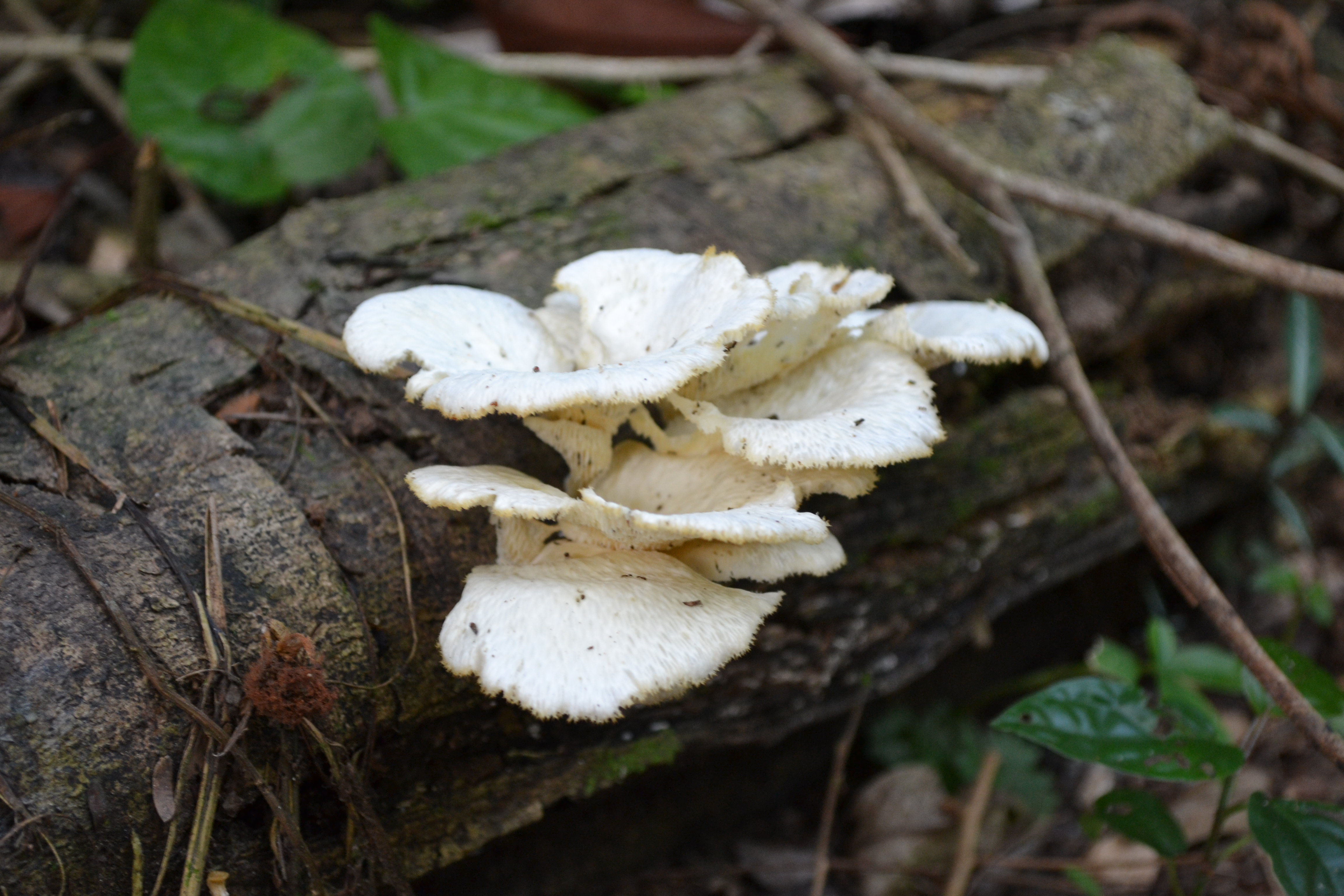 Favolus brasiliensis (Fr.) Fr. Image location: RPPN Feliciano Miguel Abdala, Caratinga, Minas Gerais, Brazil Maybe it could be also Polyporus? Recognized by sight For more information about this, see the observation page at Mushroom Observer.